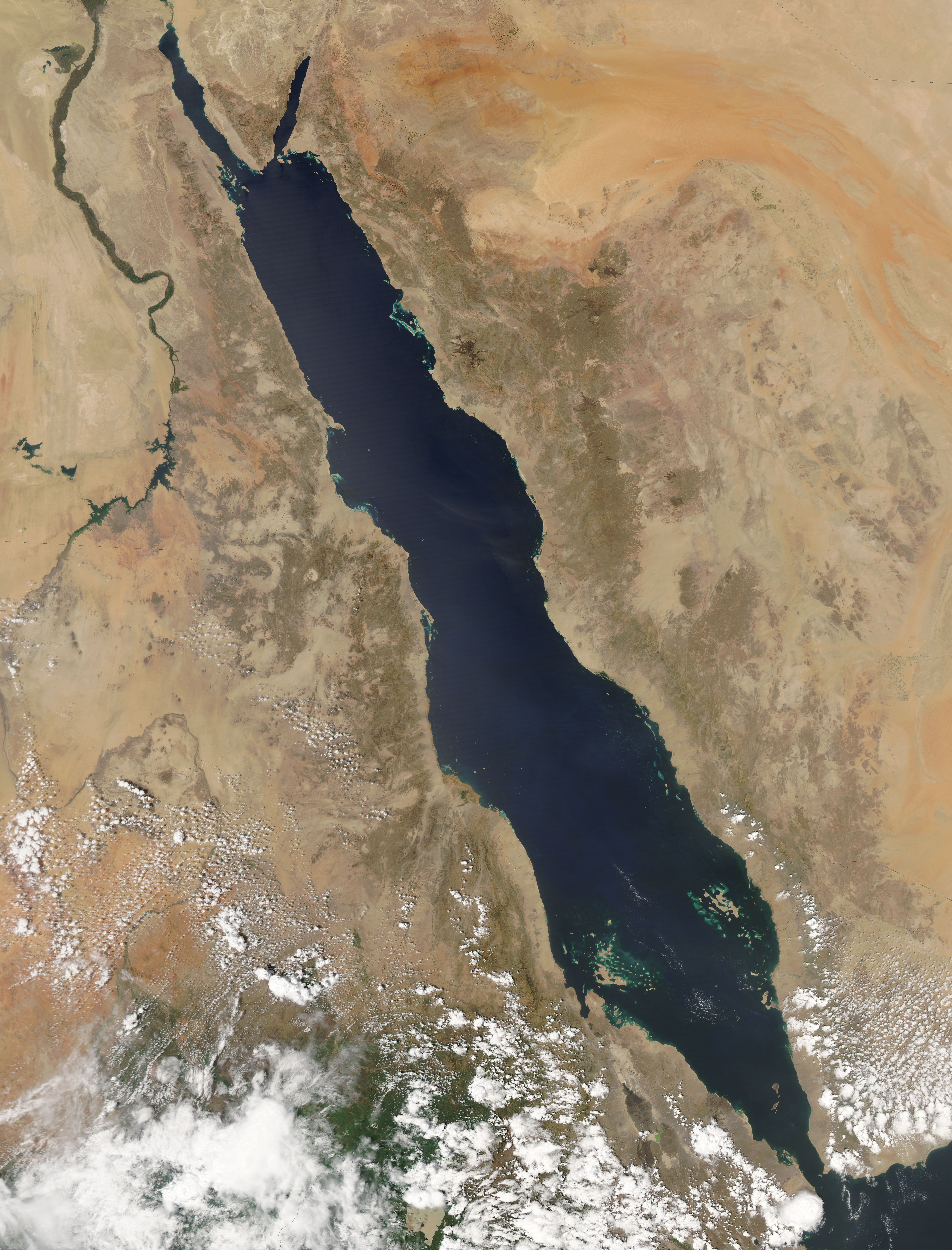 "The oblong shape of the Red Sea cuts diagonally through this true-color Aqua MODIS image from September 29, 2004. The sea's deep, clear blue waters stand out in stark contrast to the pale tan and orange sands of the surrounding deserts in northeastern Africa, the Sinai Peninsula, and the western Arabian Peninsula. Clockwise from upper left, the nations are Egypt, Israel, Jordan, Saudi Arabia, Yemen, Eritrea (on the coast of the Red Sea), Ethiopia (bottom image edge), and Sudan. At the southern end of the Red Sea, the Dahlak Archipelago is marked by tiny tan islands and green shallow waters. The dark green ribbon of the Nile River flows northwards through Egypt and Sudan in the upper left portion of the image." (from NASA's Visible Earth)